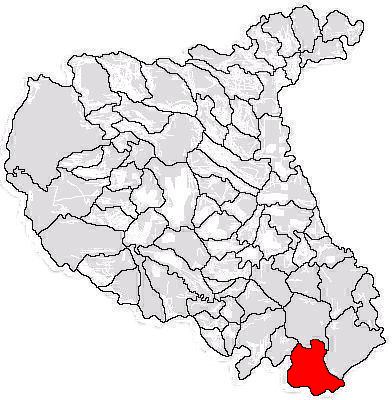 Map with limits of commune